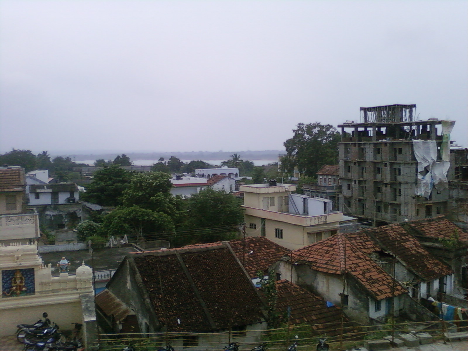 The picture is of the Bhadrachalam village. The photograph has been taken from the top of the Bhadrachalam temple.